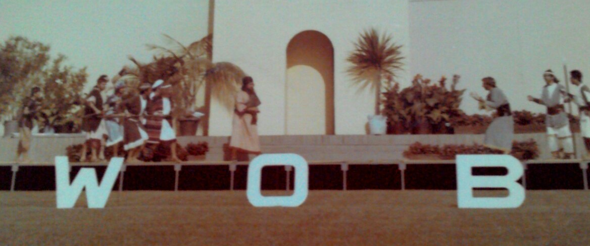 Conventions of Jehovah's Witnesses (1981, Vienna, polish; drama)